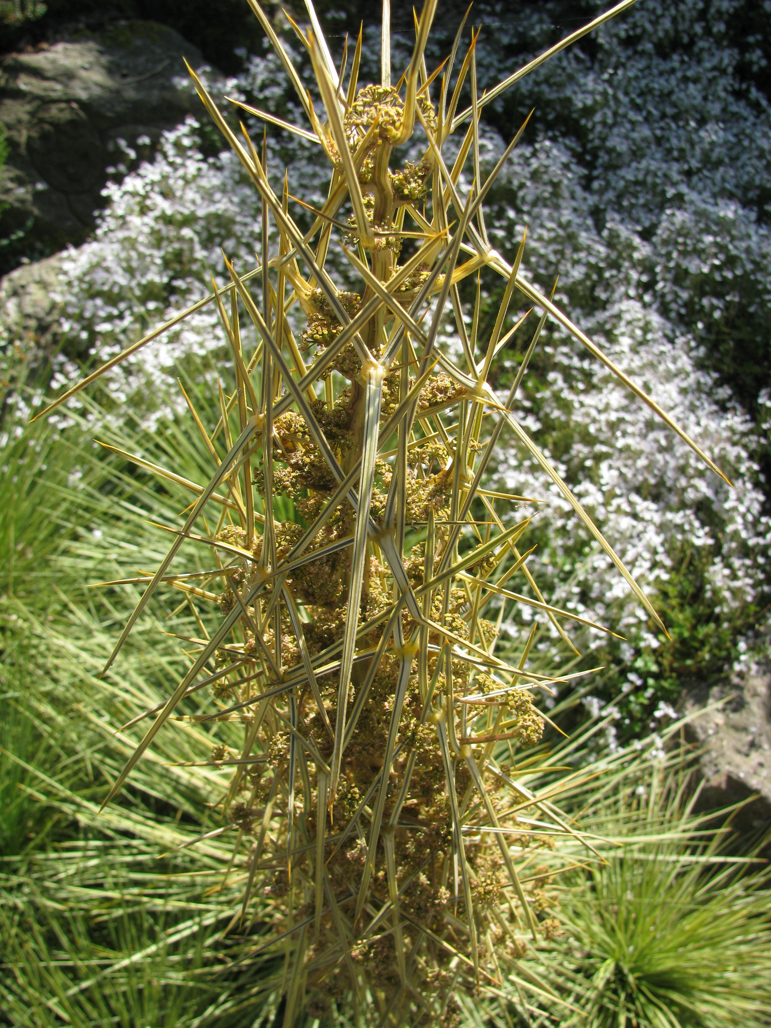 Spaniard Royal Botanic Garden Edinburgh: Accession number 2005.0858 B